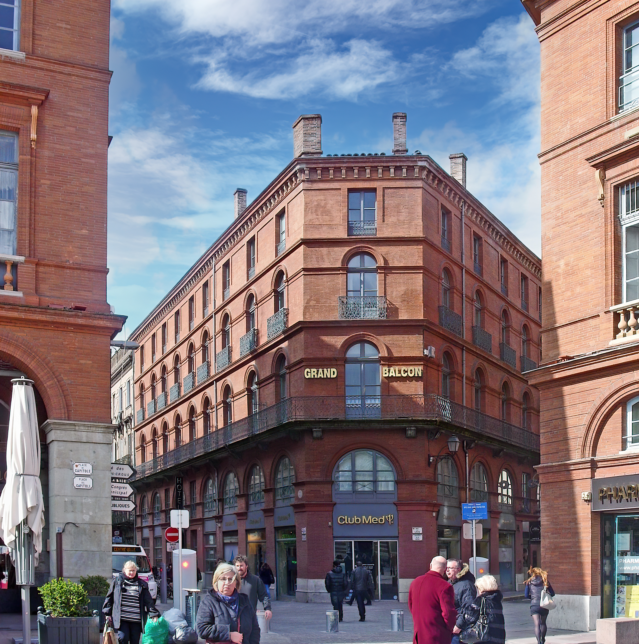 Hôtel du Grand Balcon seen from place du Capitole in Toulouse, Haute-Garonne, France.